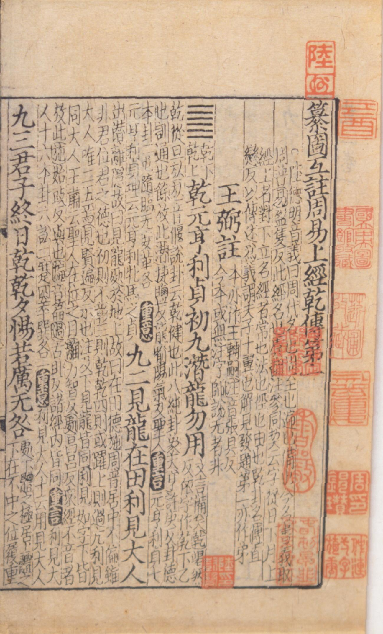 A page from a Song Dynasty (960-1279) printed book of the I Ching (Yi Jing, Classic of Changes or Book of Changes), 17.7x11.9cm, printed book, in the National Central Library in Taipei.